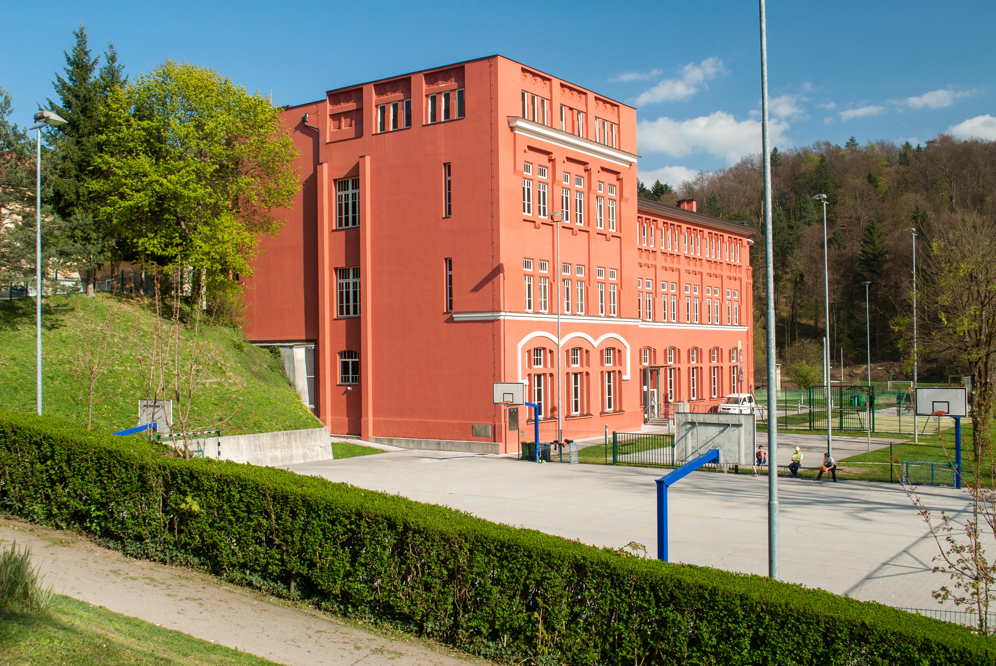 Salesian youth centre in Rakovnik, Ljubljana, Slovenia.